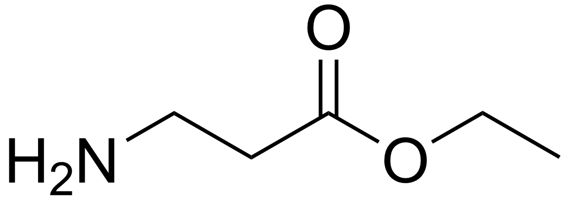 chemical structure of beta-alanine ethyl ester (ethyl beta-alanate)